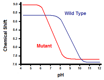 Protein NMR for a protein with (wild) or without (mut) a stablizing salt bridge. Being observed is the His70 C2 proton in T4 lysozyme, with or without D70N mutation.